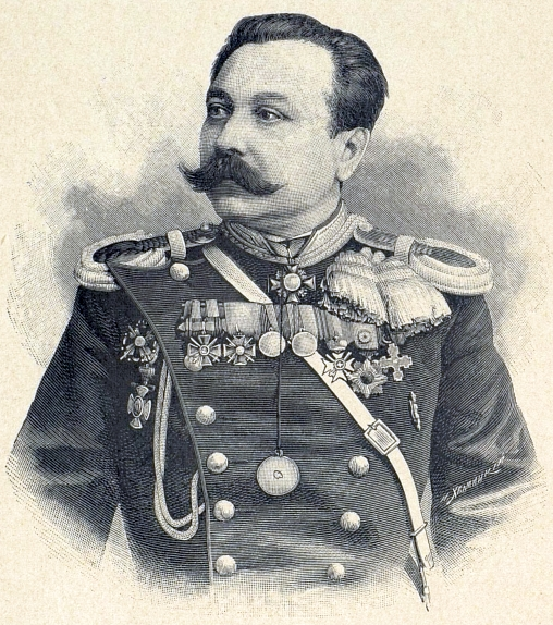 Krestovsky, Vsevolod Vladimirovich